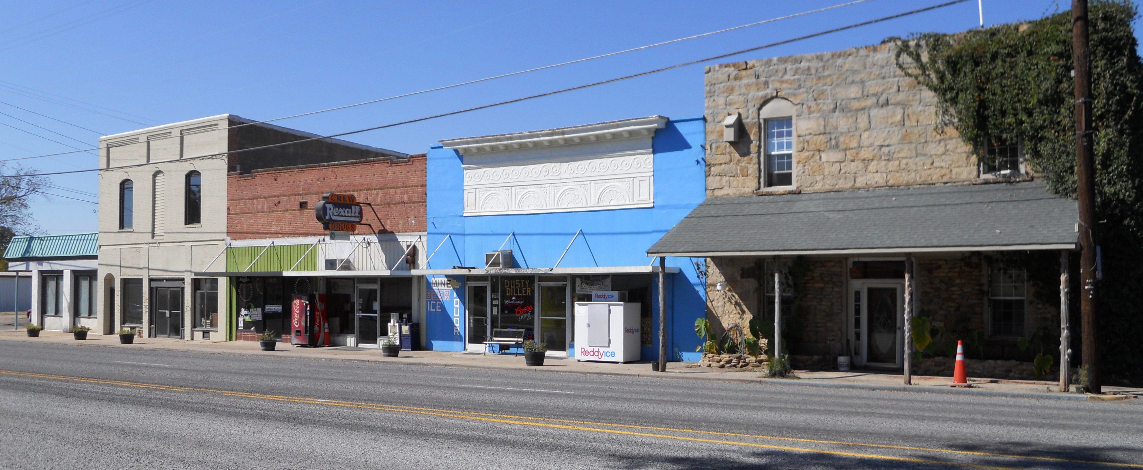 This is a photograph of downtown Rockford, Alabama.